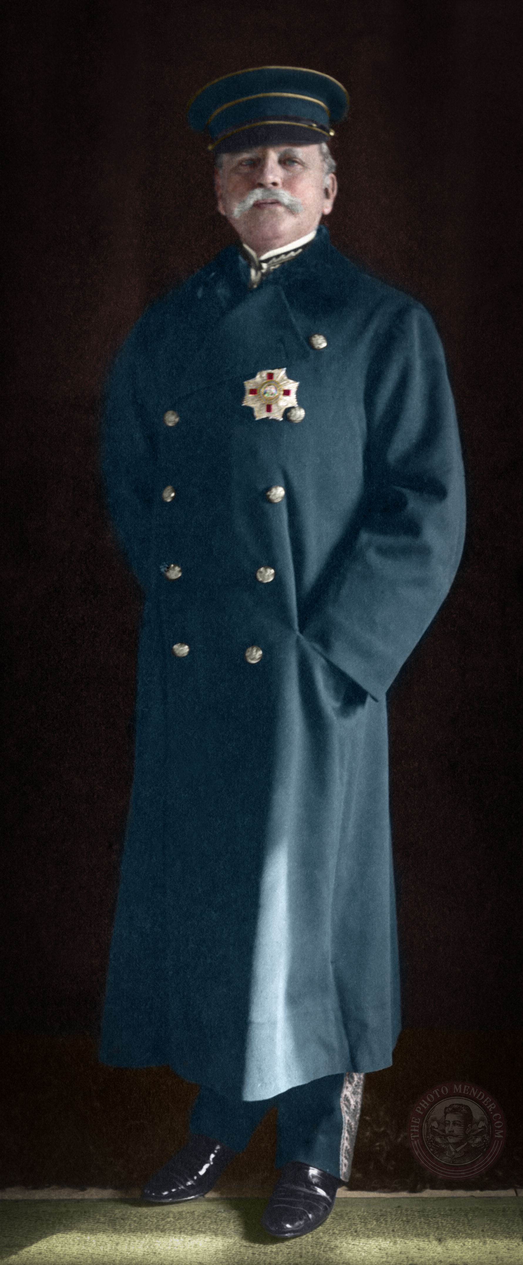 Sir Charles Cavendish Boyle (1849 – 1916) served as Colonial Governor of Newfoundland. He wrote the lyrics for the "Ode to Newfoundland".